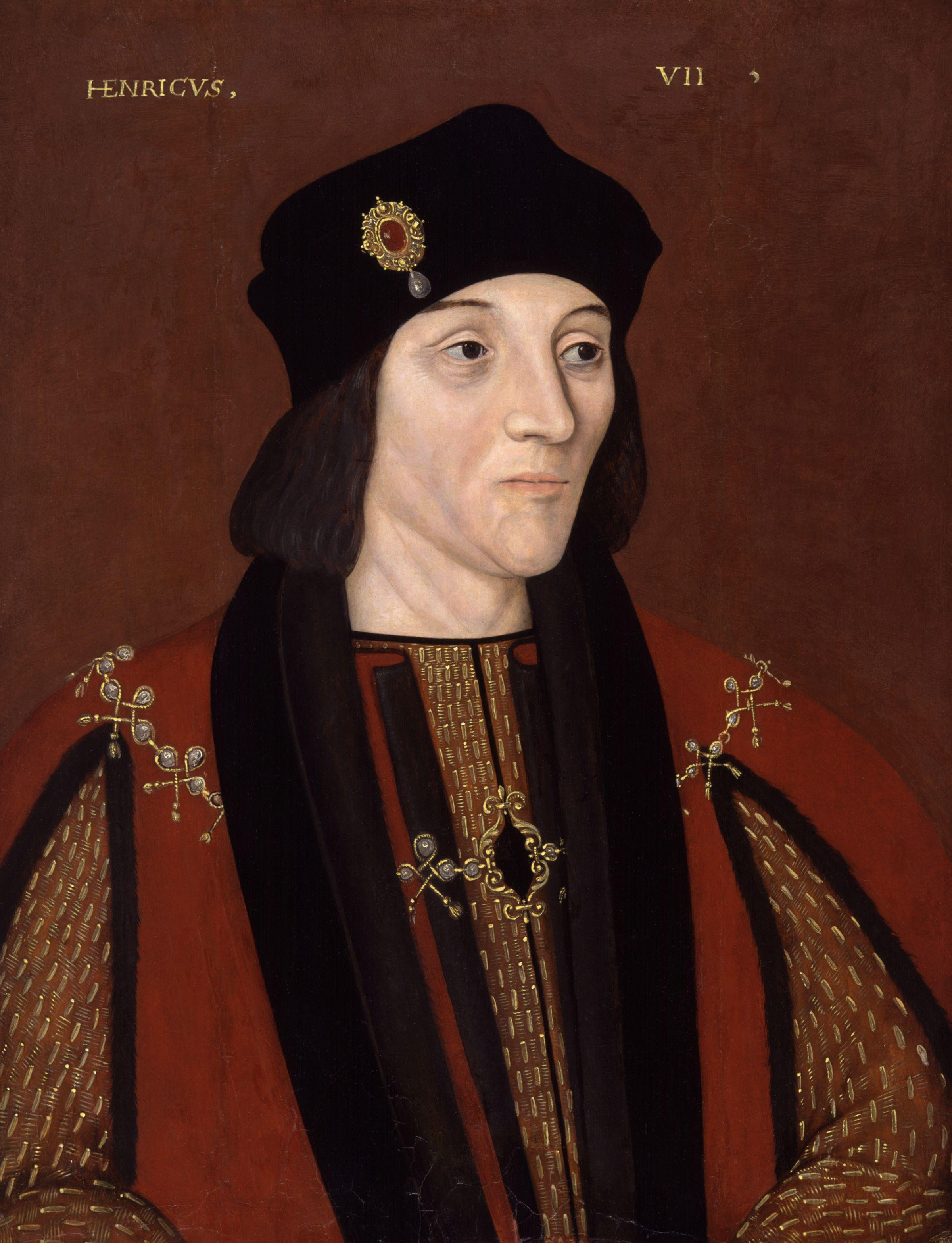 King Henry VII, by unknown artist. All images in this batch have an unknown author, but there is strong evidence it was first published before 1923 (based mainly on the NPG's estimated date of the work).